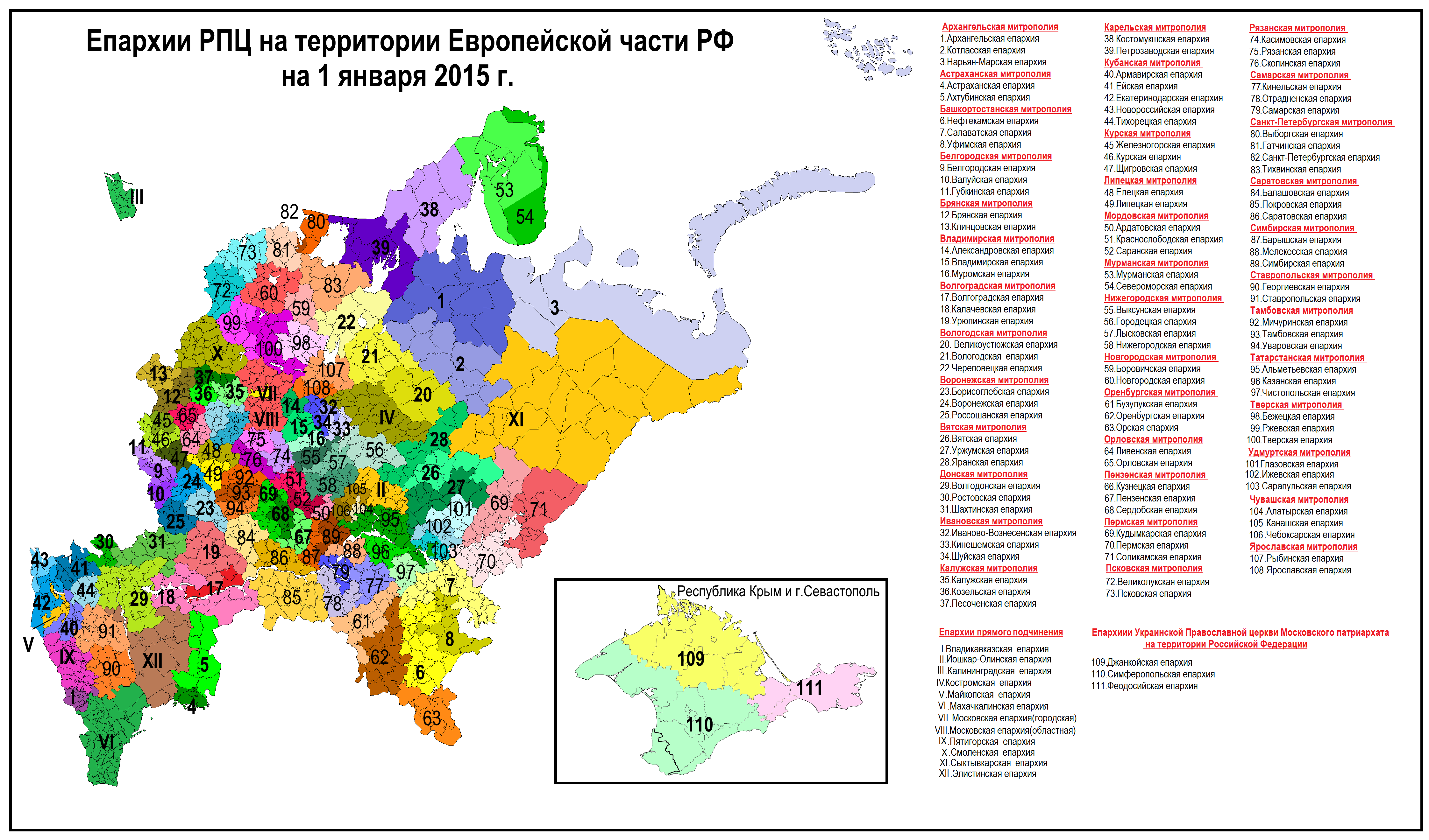 Diocese of the Russian Orthodox Church (the European part of Russia; Autonomous Republic of Crimea & Sevastopol) on 01.01.2015